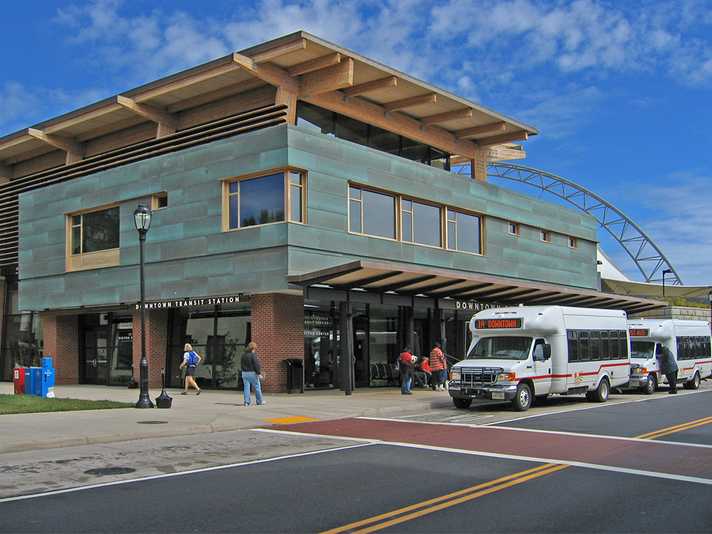 Transit Center in downtown Charlottesville This work is licensed under a Creative Commons Attribution 3.0 United States License